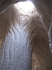 Eponymous tree in sculptor RA Paulette's "Tree Cave"